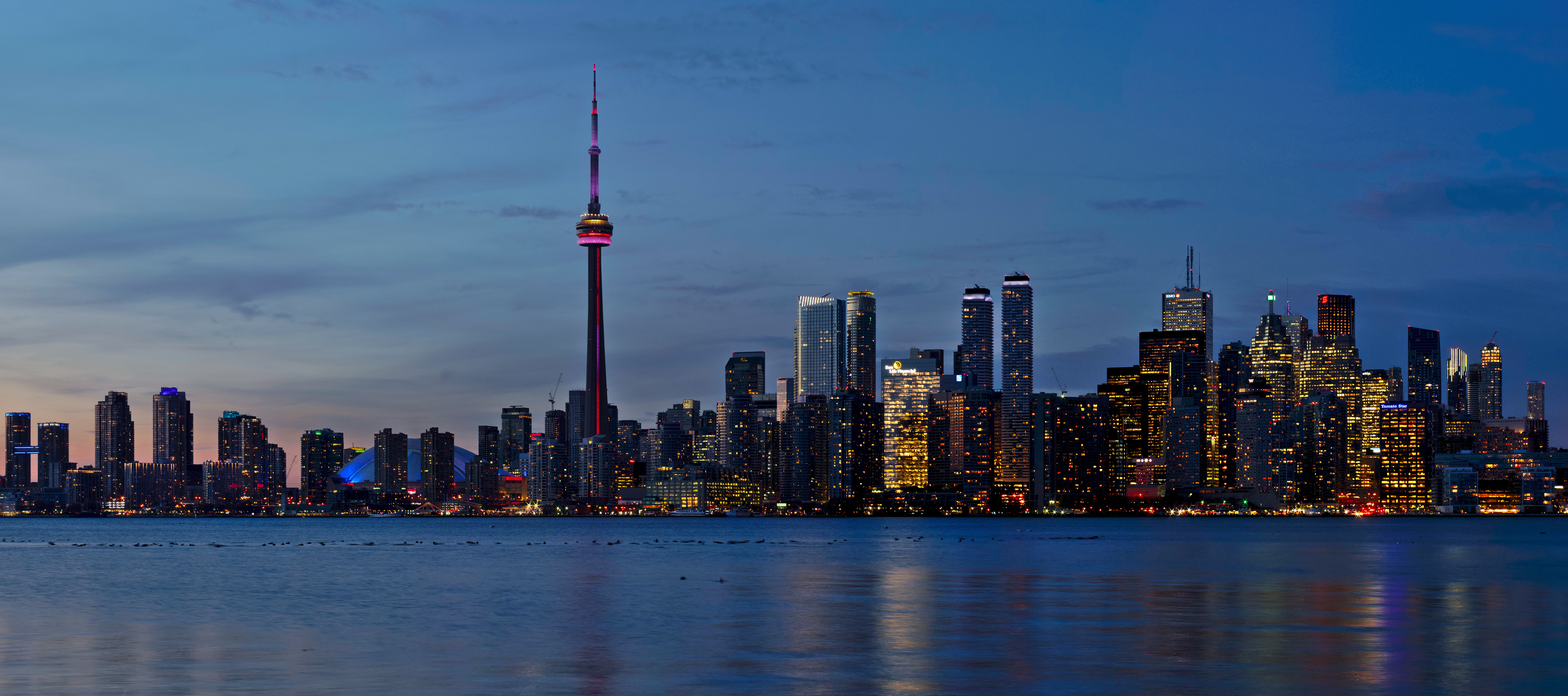 Picture of the Toronto skyline at sunset taken from the Snake Islands of the Toronto Islands. This is a crop of a larger panorama.